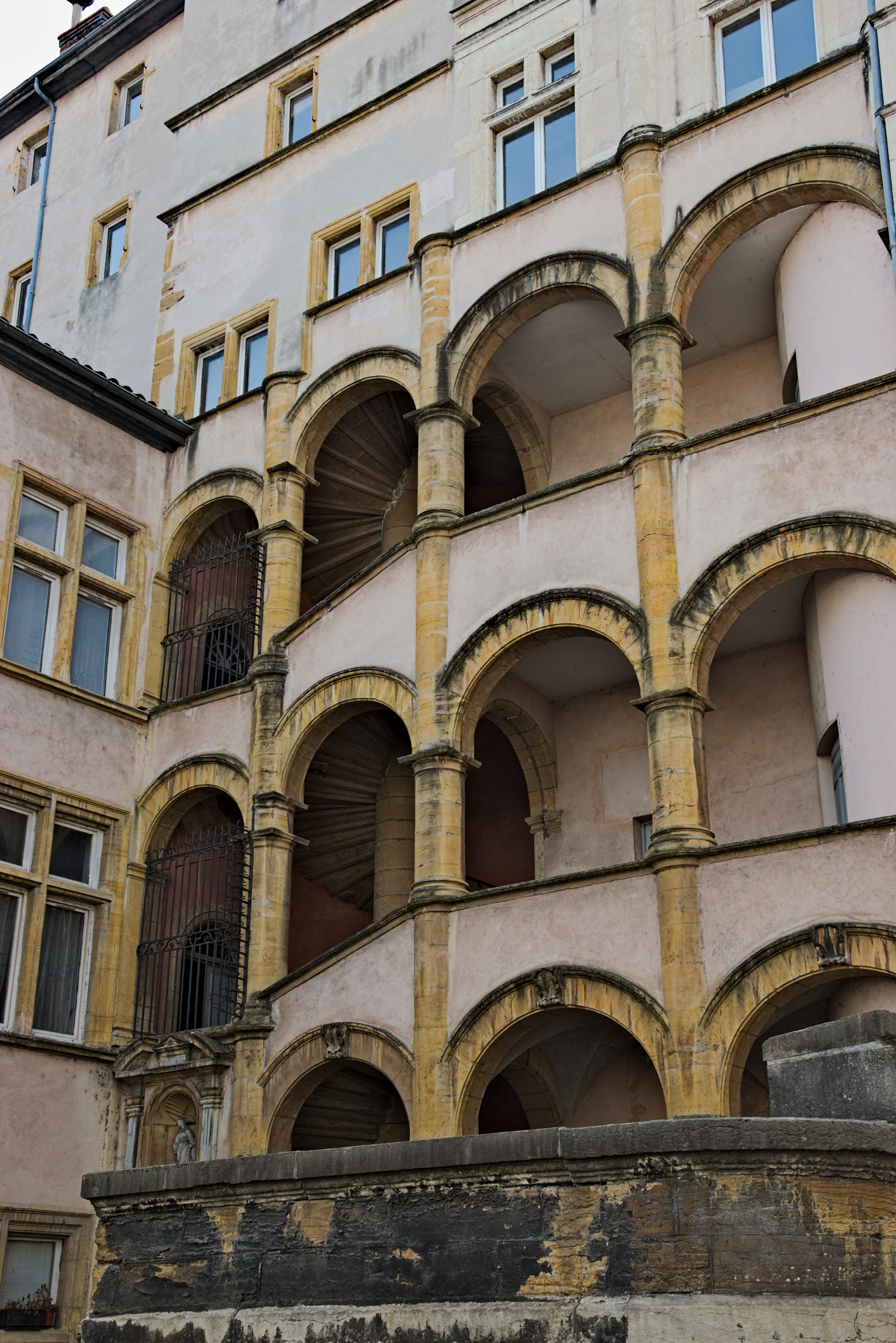 Hotel Paterin (or Maison Henri IV) in Lyon. Built under François 1er for the magistrate Claude Paterin.